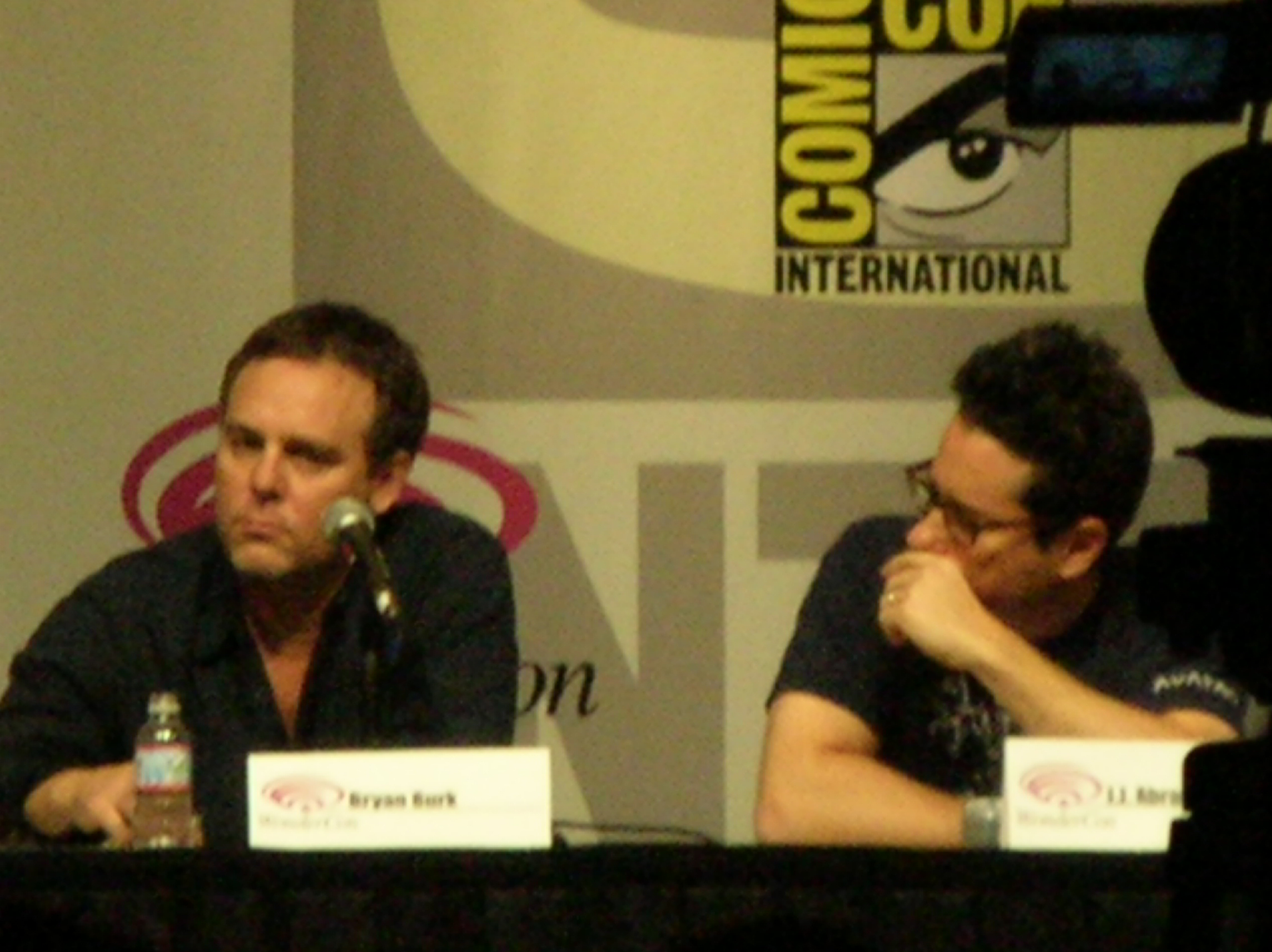 Producer Bryan Burk and co-producer and director J.J. Abrams participating in a Star Trek panel at WonderCon 2009.